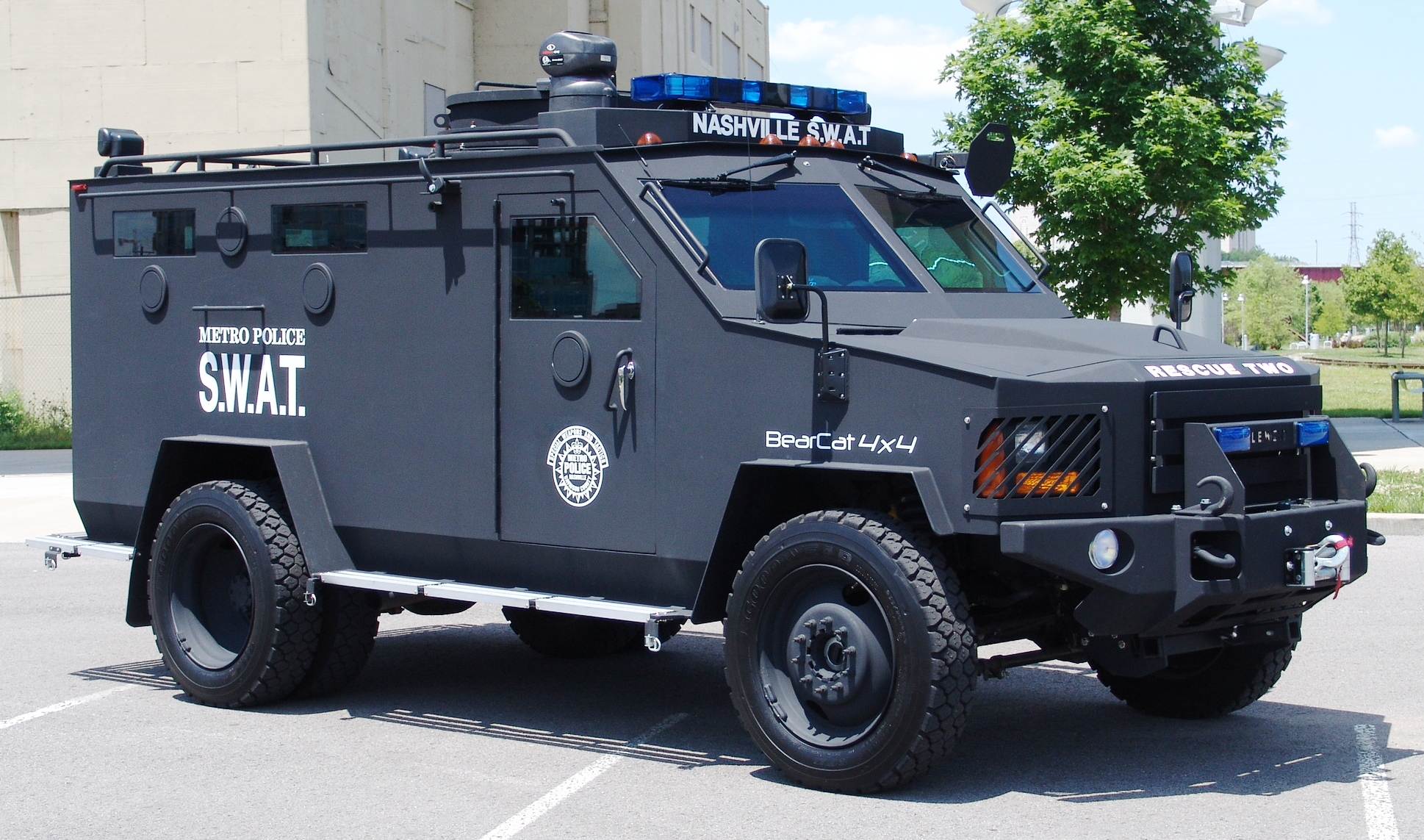 Police Lenco Bearcat CBRNE Armored Rescue Vehicle.